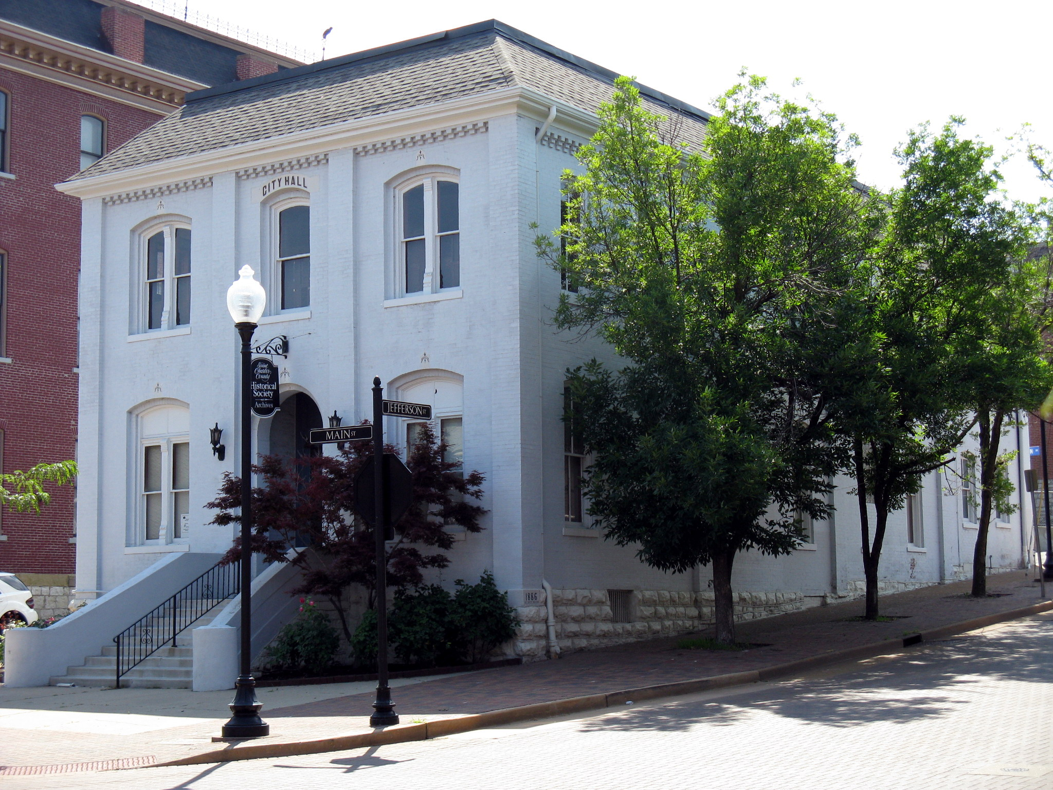 The old City Hall at the corner of Central Avenue and Main Street. It was built around 1832 but was mostly rebuilt in 1886.